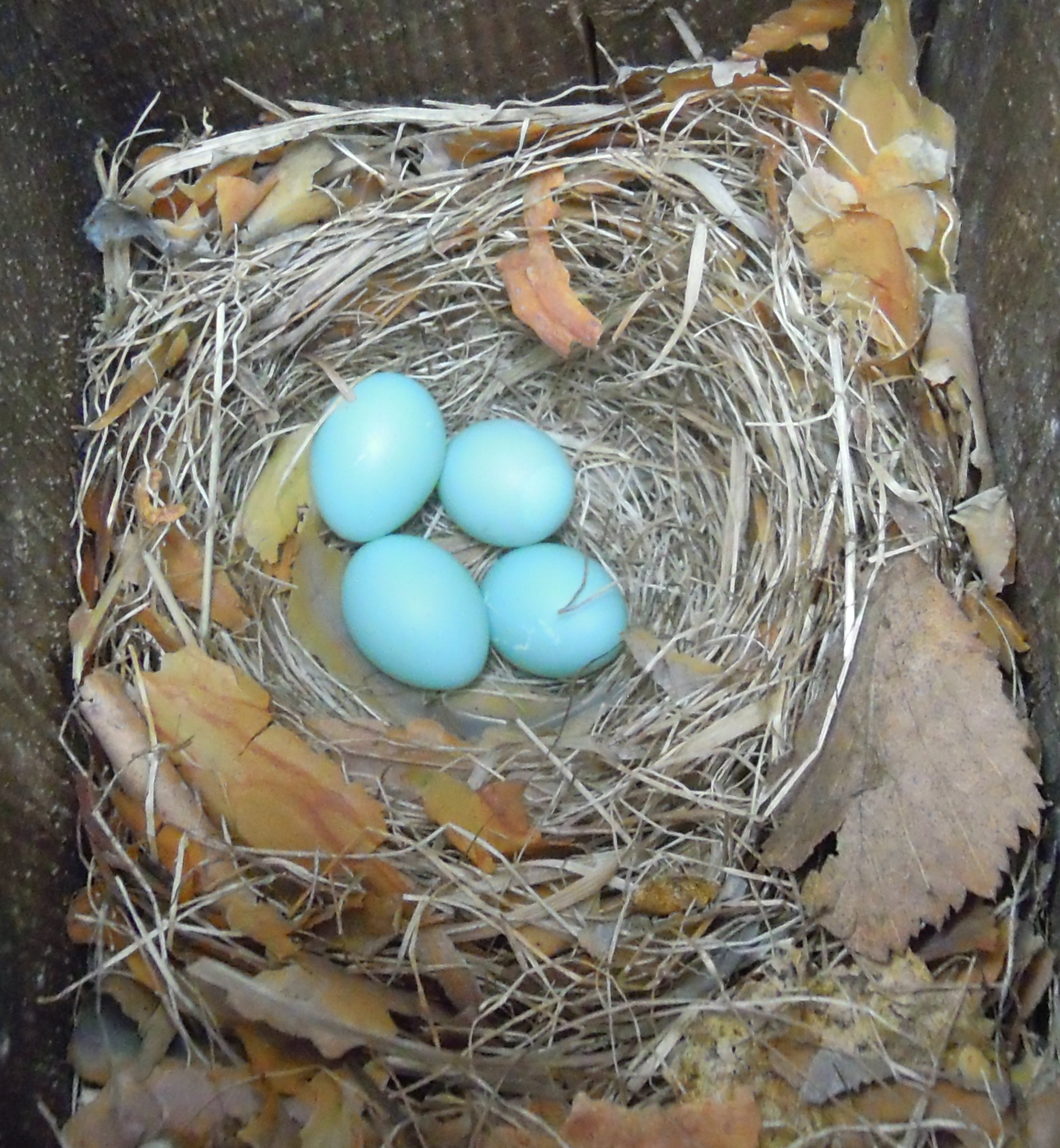 European pied flycatcher (Ficedula hypoleuca) egg/nest